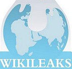 Logo used by Wikileaks